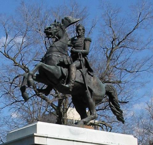 Category:Andrew Jackson Category:Images of Nashville, Tennessee